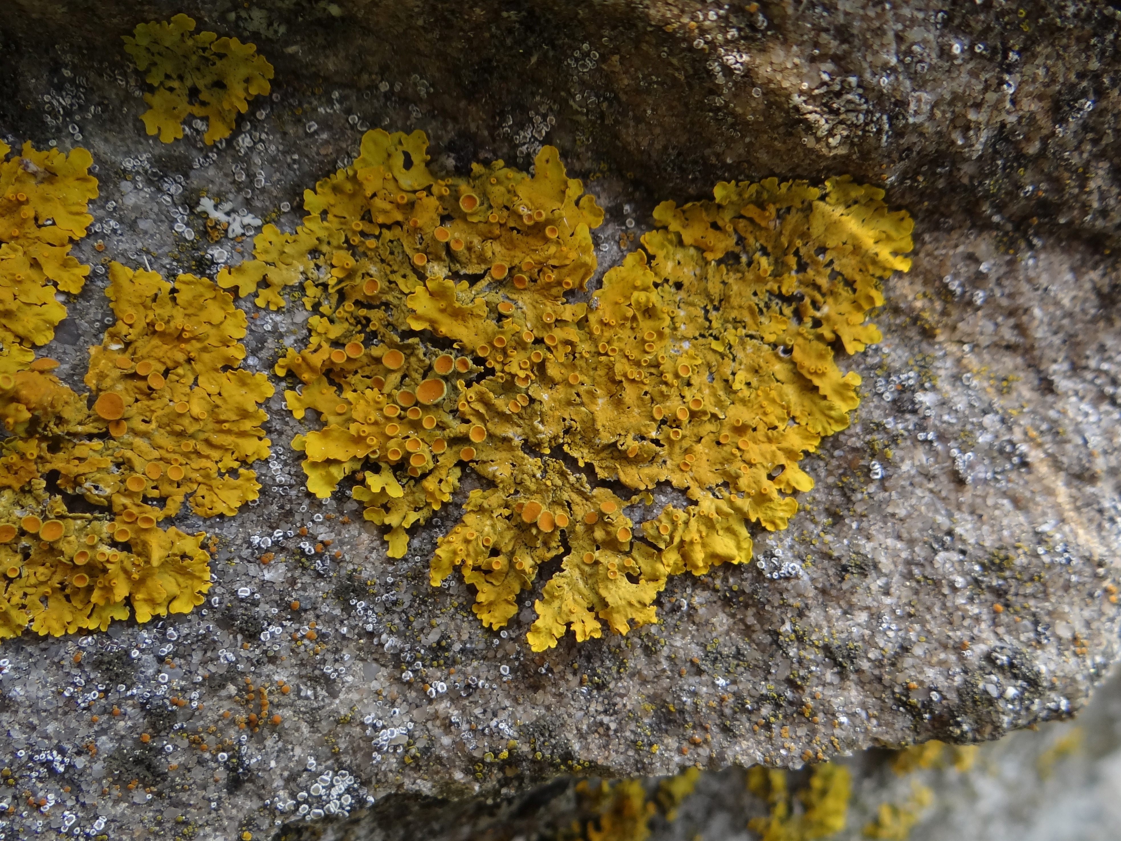 Xanthoria parietina (location: Poland, Lichwin, Cemetery nr 185 in Lichwin)